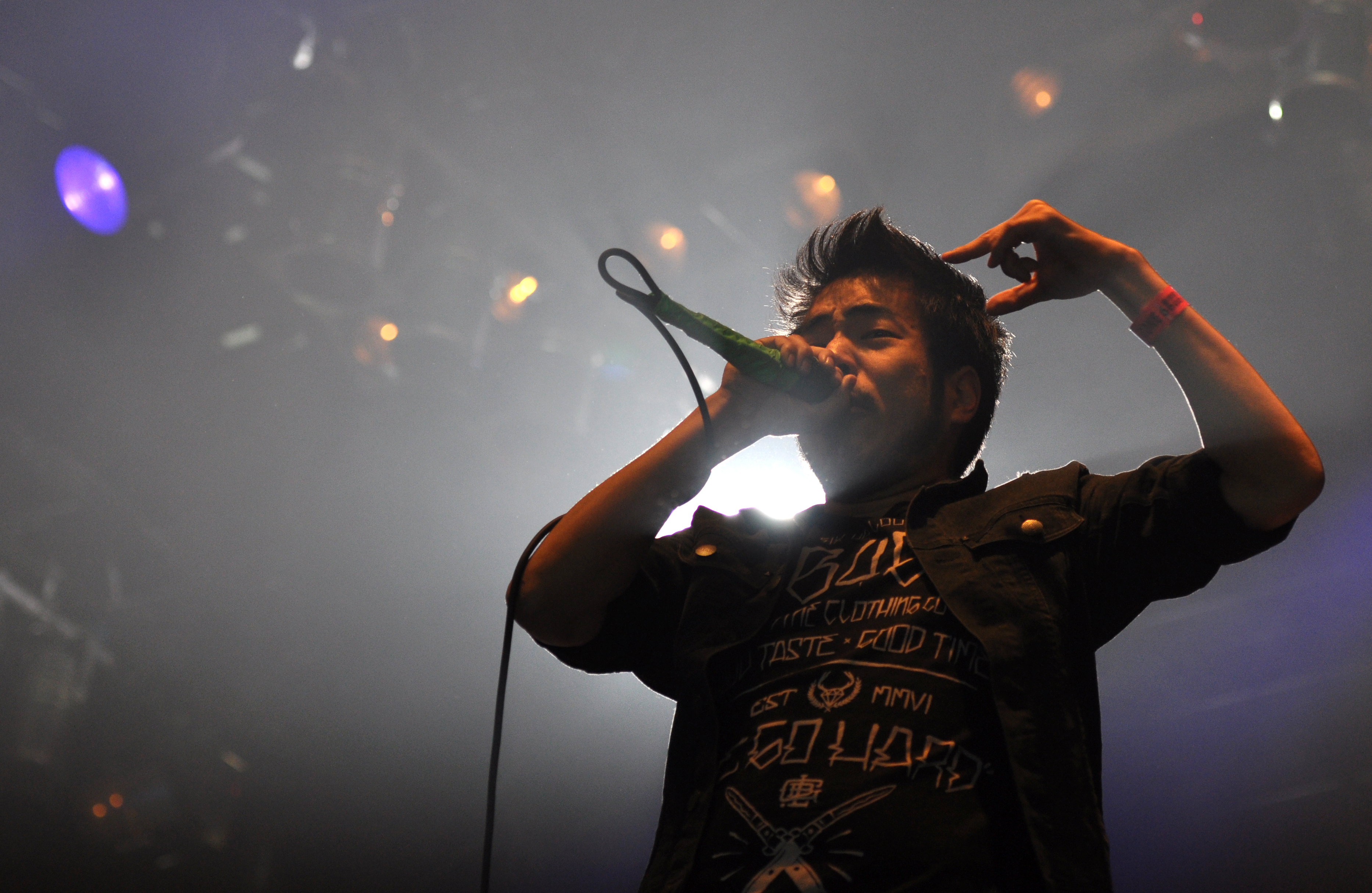 Crossfaith at Groezrock 2013, Belgium